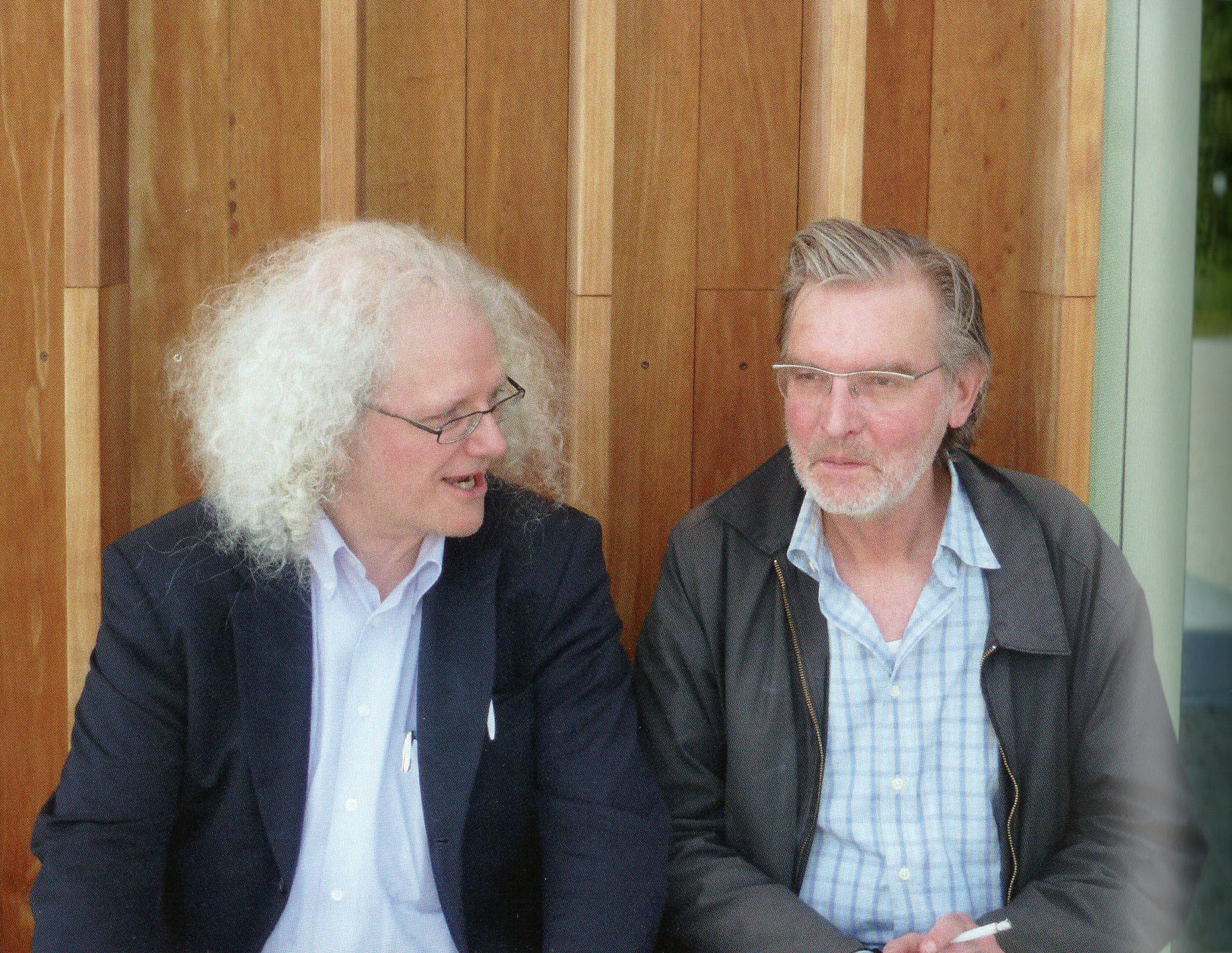 Thomas Schütte & Bart Cassiman meeting each other at the Skulpturen Halle in Neus (2017)